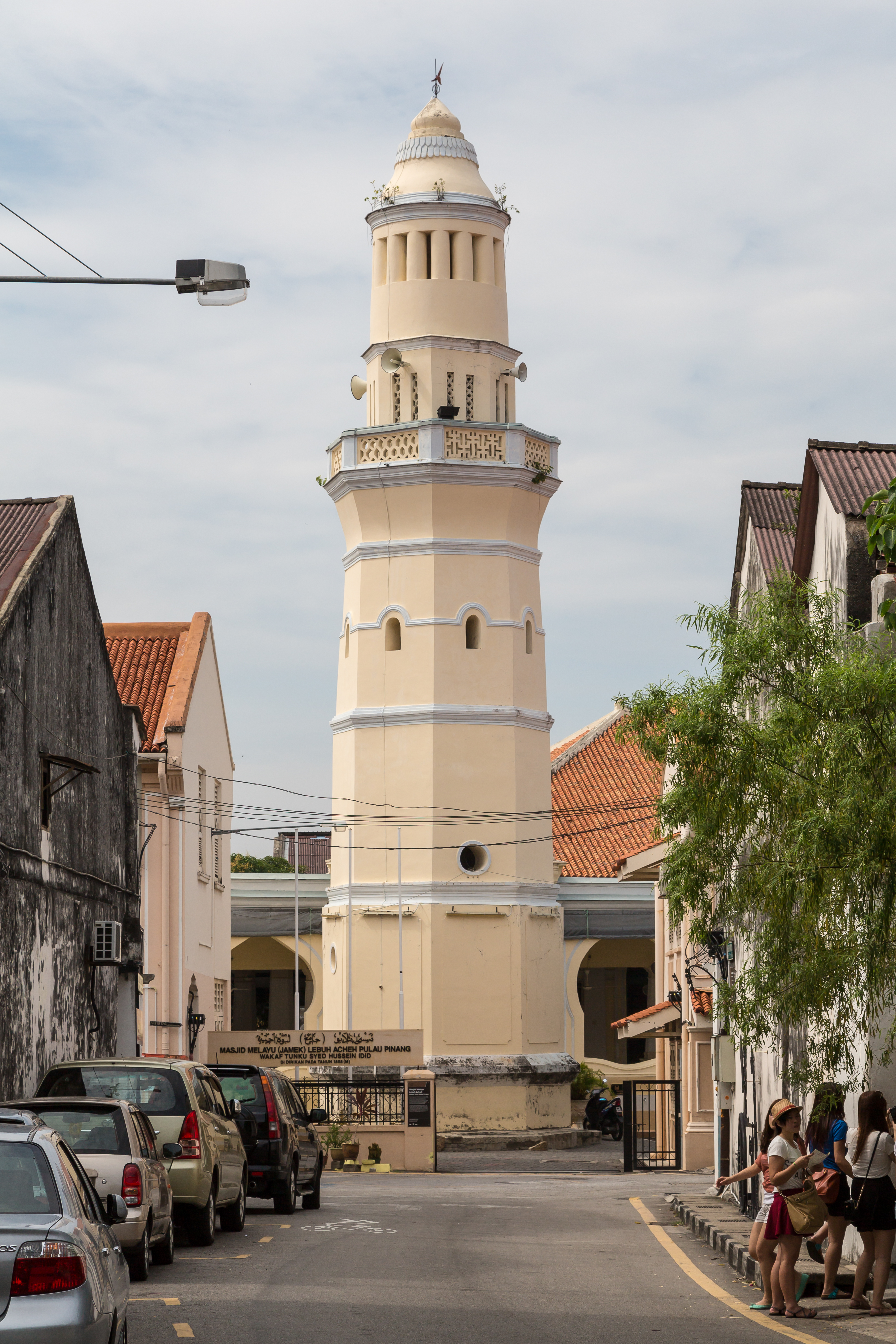 Penang, Malaysia: Masjid Lebuh Aceh